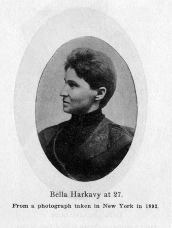 Bella Harkavy at 27, wife of Alexander Harkavy.